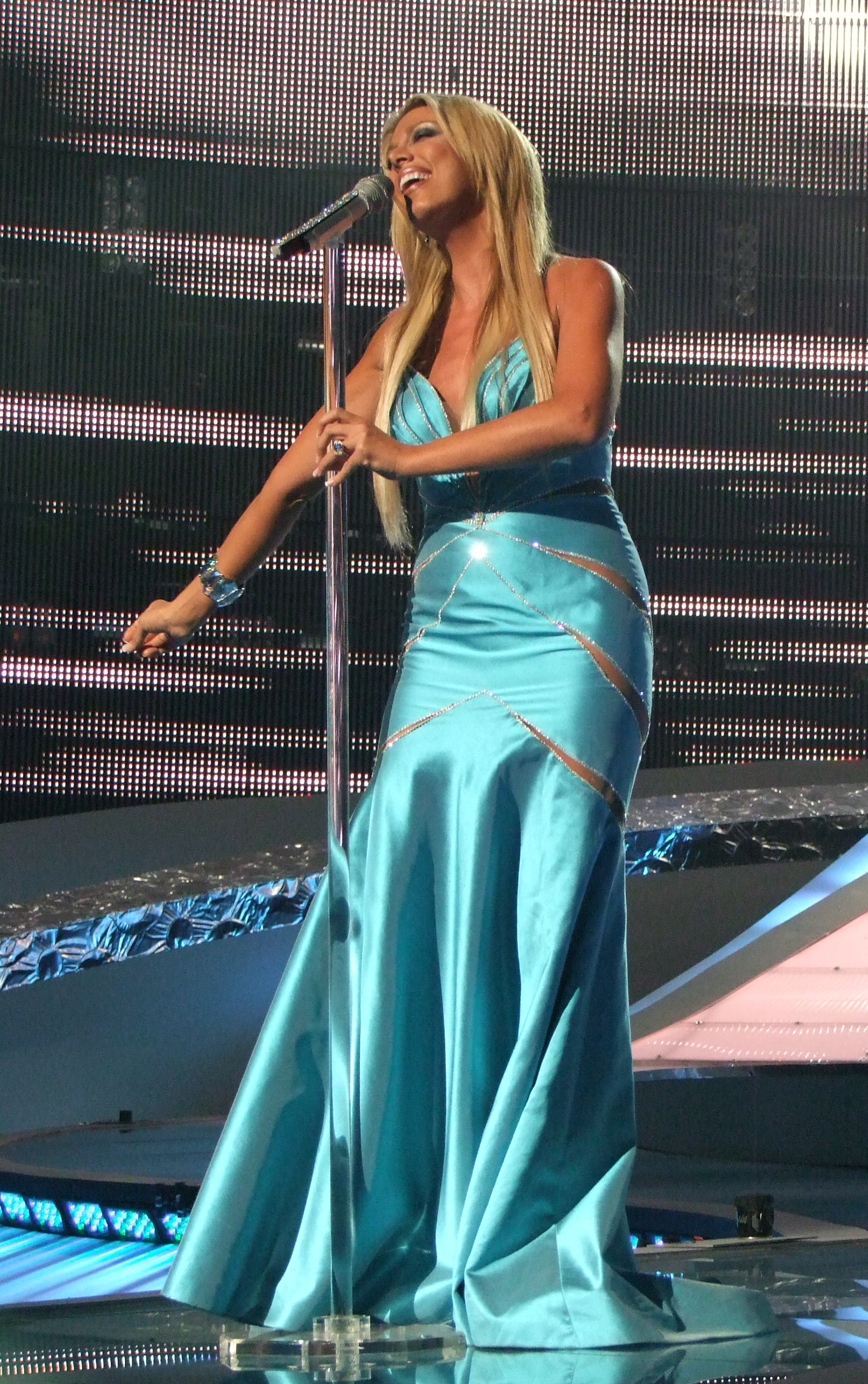 Eurovision Song Contest 2008, 1st semifinalPoland: Isis Gee - For life